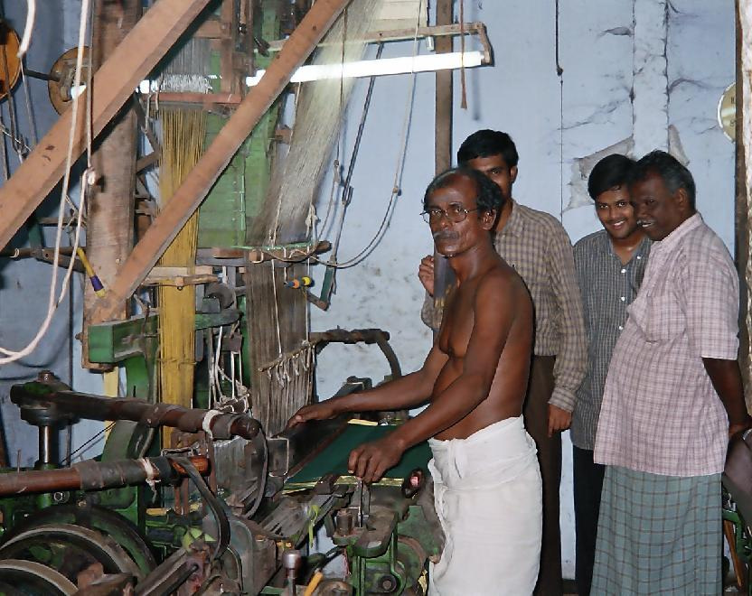 Photograph of a person working on a Power loom taken in Ettayapuram.